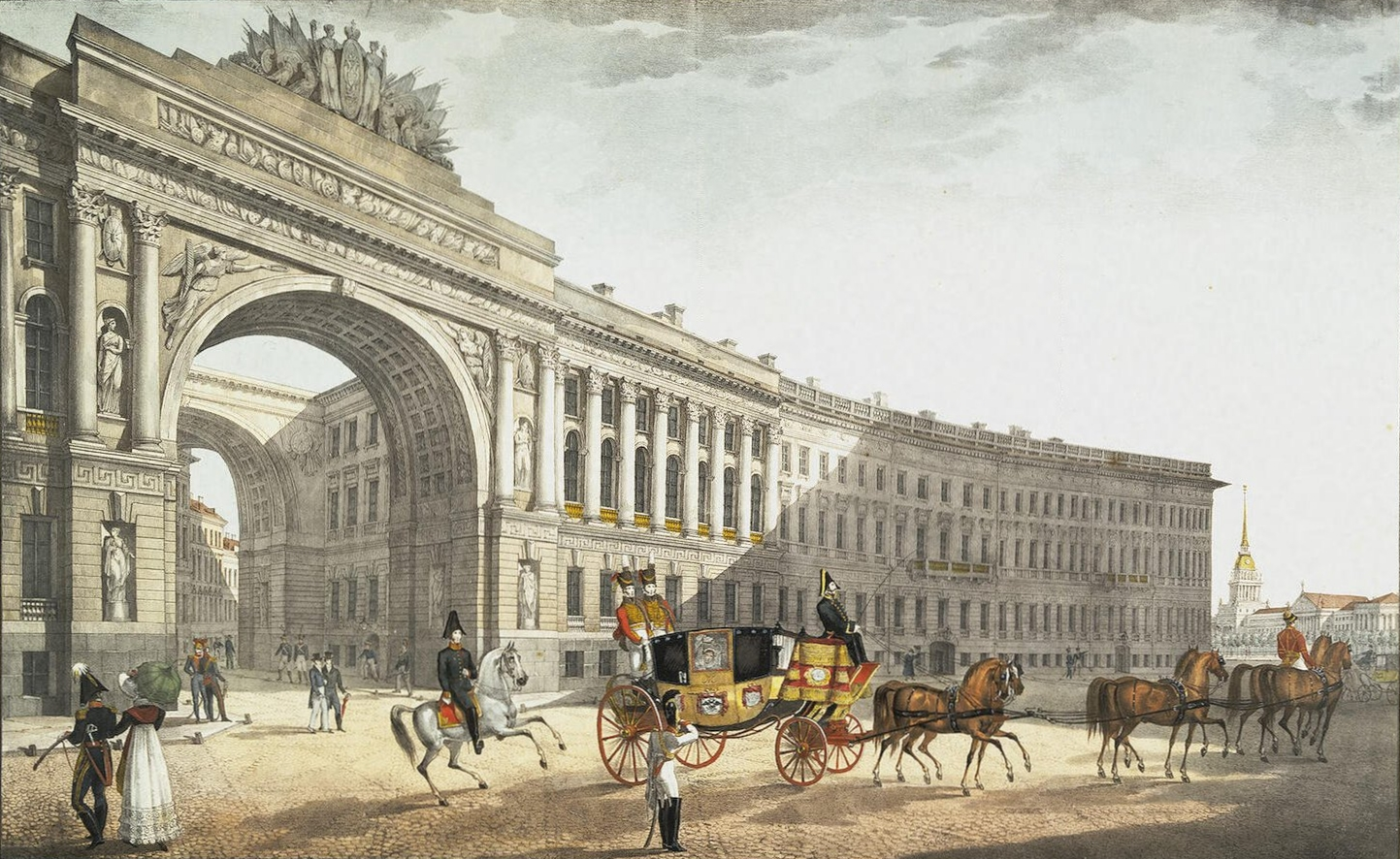 View of the Arch of the General Staff Building from Palace Square. Colored lithography. 1822